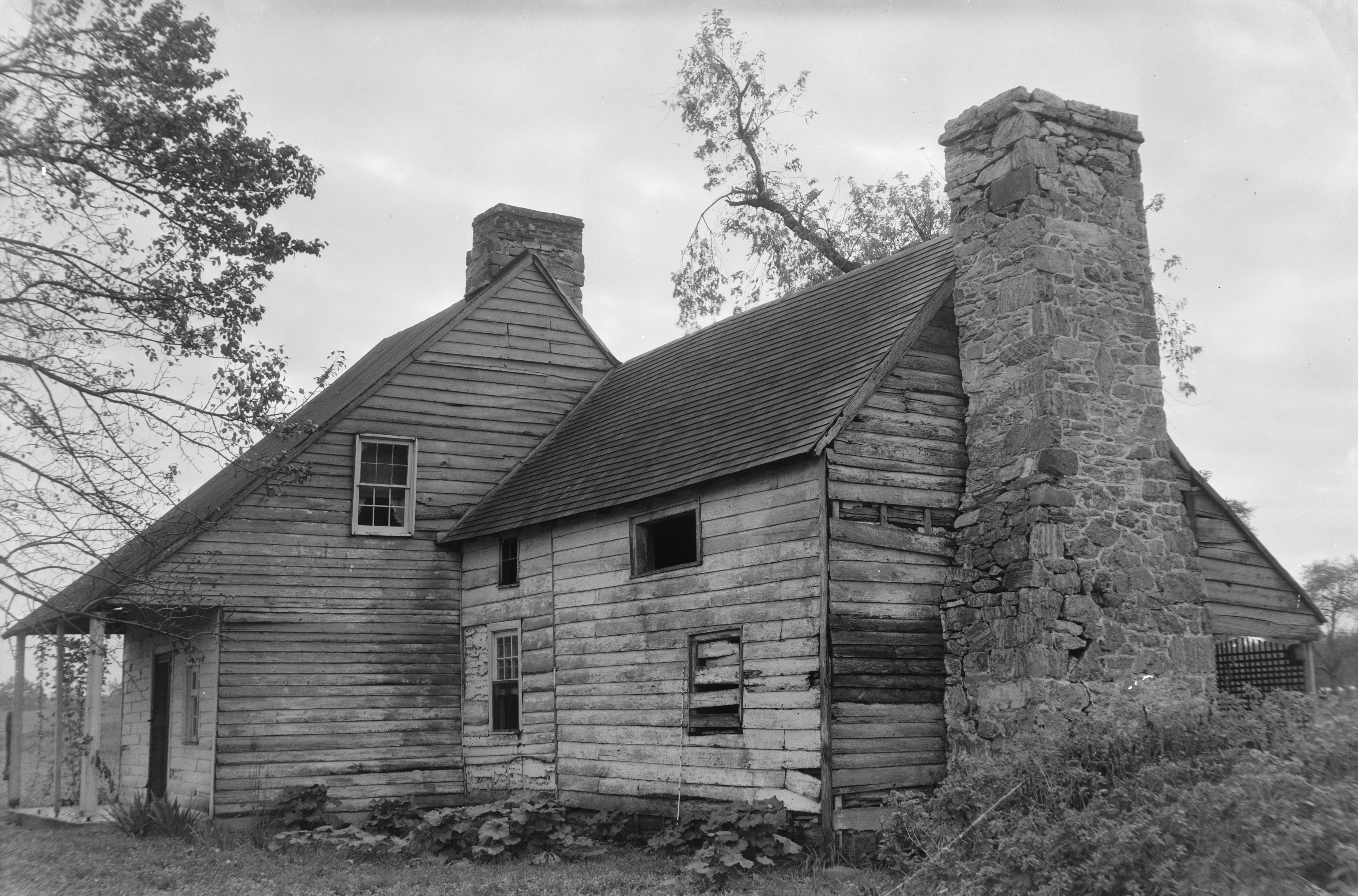 Front and side of the Peter Burr House, located on Warm Springs Road near Shenandoah Junction in Jefferson County, West Virginia, United States. Built in 1751, it is listed on the National Register of Historic Places.